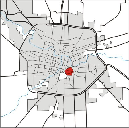 Sarmiento Park in Córdoba, Argentina. Highlighted in red.